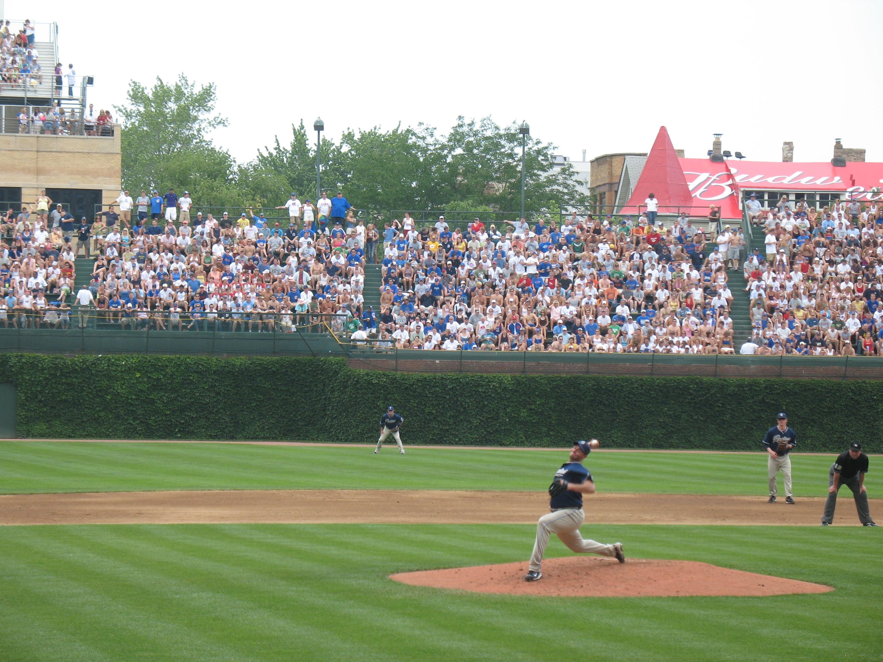 Description Chris Young DateJune 16, 2007SourceSelf-photographedAuthorUser:TonyTheTigerPermission (Reusing this file) I, Antonio Vernon, am the photographer and copyright holder. I release this photo for all fair uses. 13:17, 17 June 2007 . . TonyTheTiger . . 3072×2304 (986 KB) Chris Young